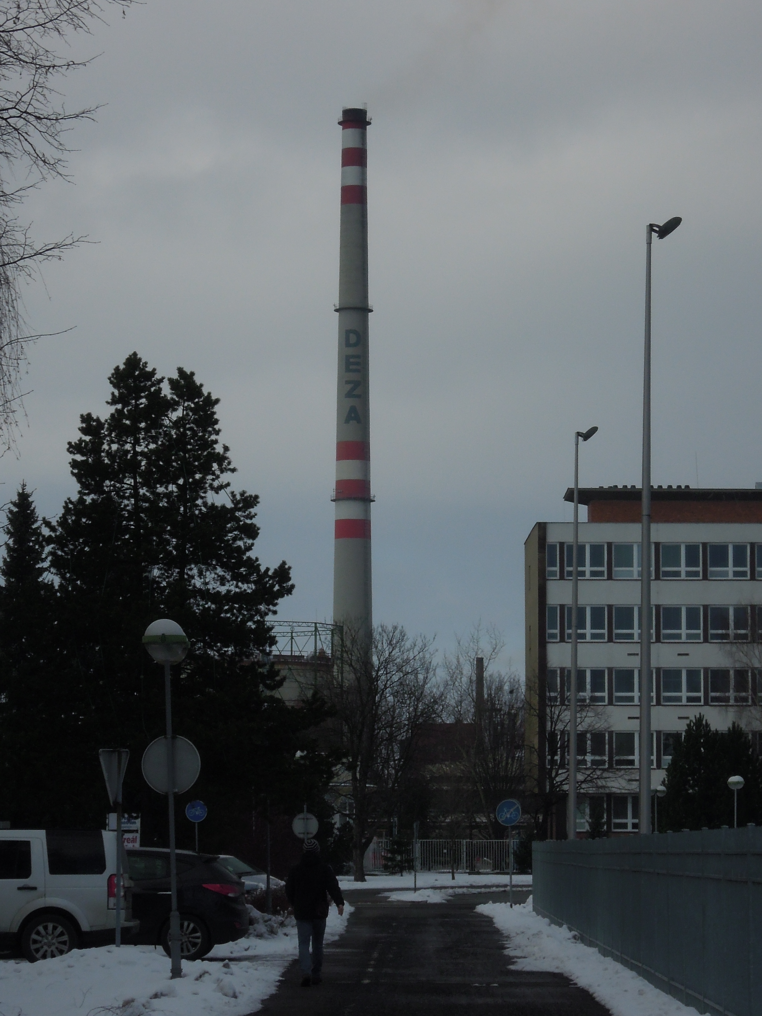 DEZA company in Valašské Meziříčí, Vsetín District, Zlín Region, Czech Republic